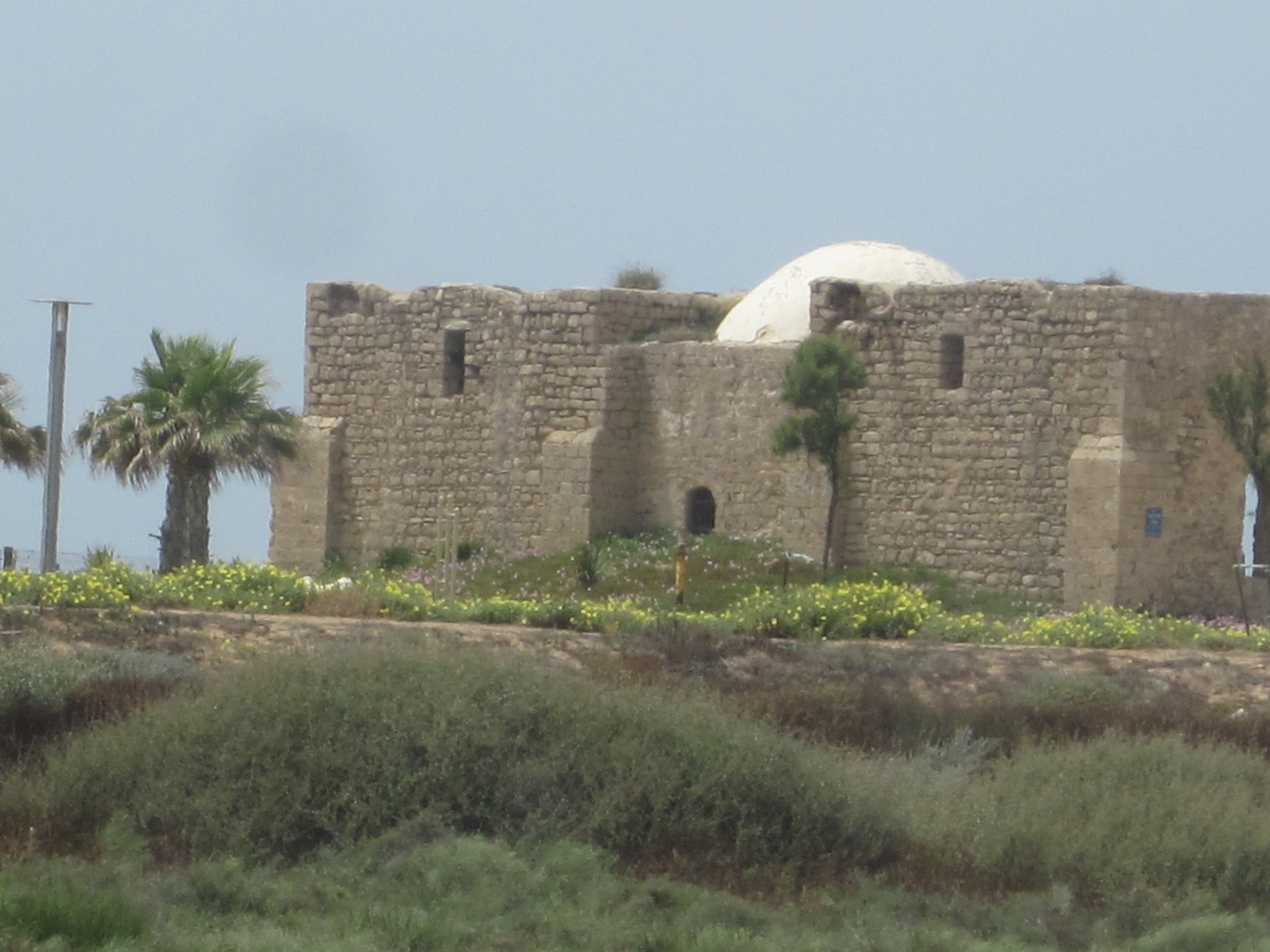 Ashkelon